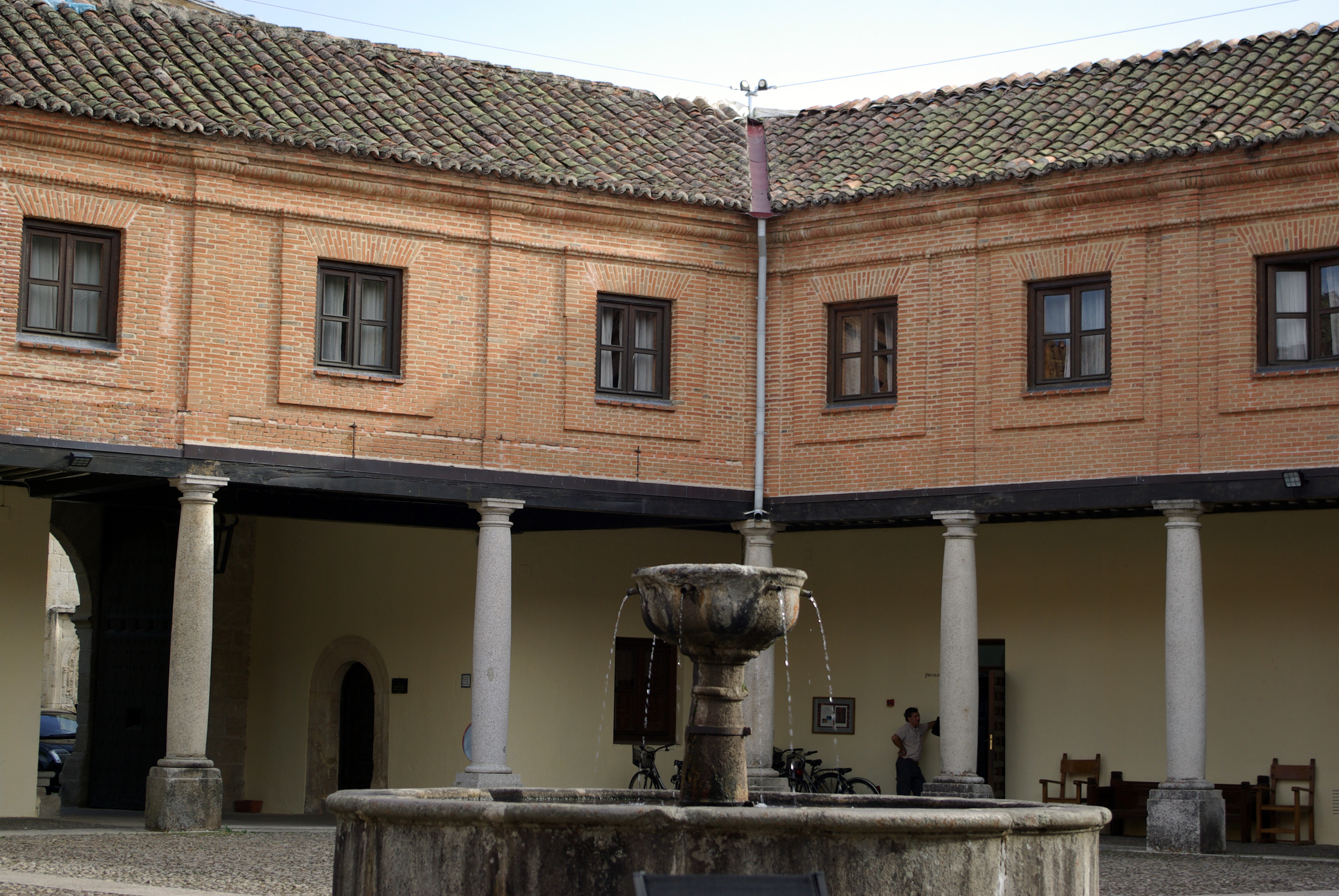 Monastery El Paular, Rascafría (Madrid, Spain)